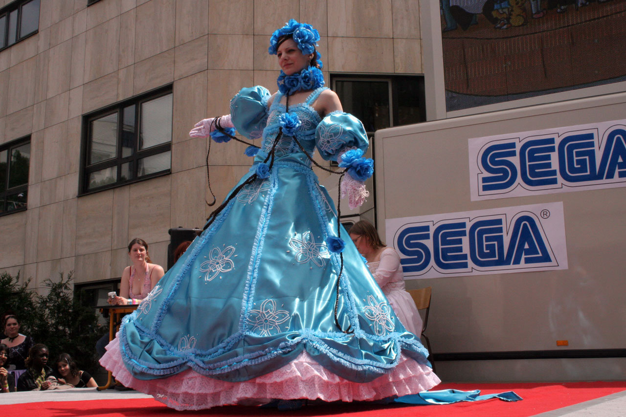 Paradise Kiss cosplay at Epitanime 2006